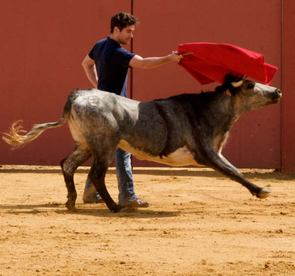 Detail of AF-H caping a Saltillo vaquilla (no animals harmed)